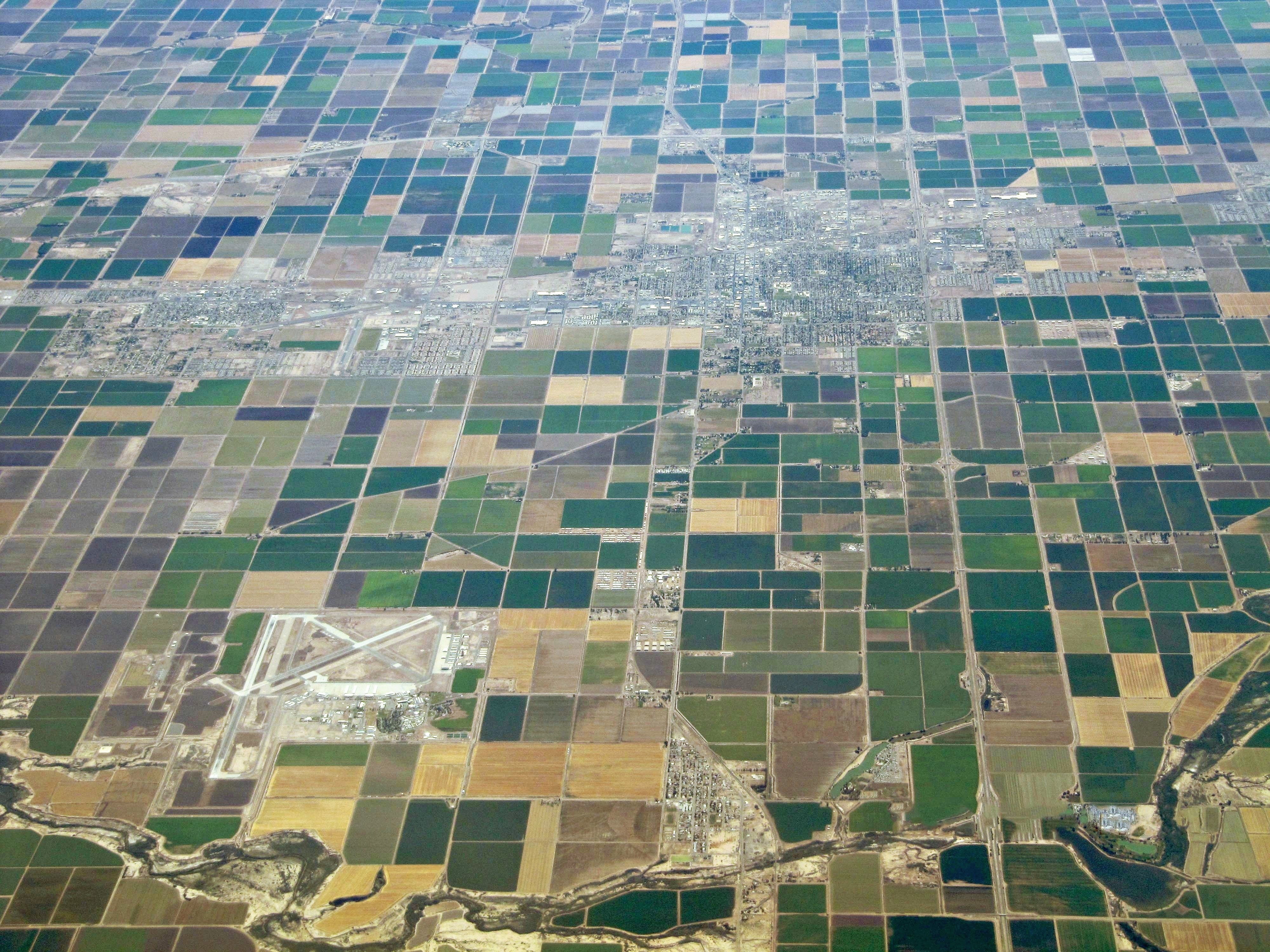 View from above in the USA. Looking eastwards across Imperial County, California. Top left is the city of Imperial. Top right is the city of El Centro. Bottom left is Naval Air Facility El Centro and to the right of that is Seeley.